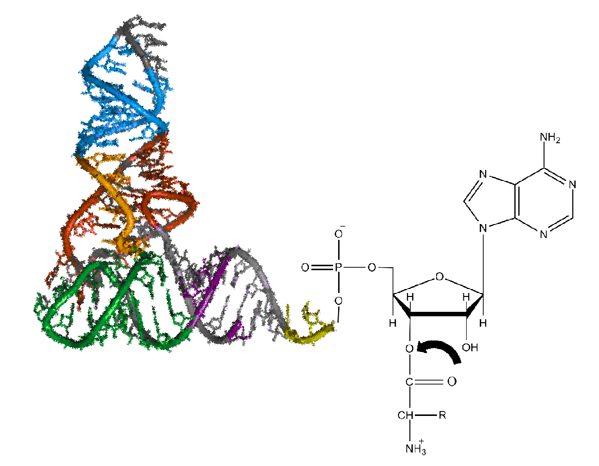 An aminoacyl-tRNA, shown with a yeast tRNAPhe and generic amino acid. An arrow indicates the ester bond between a 3' terminal adenosine and the amino acid carboxyl group. Derived from [File:TRNA-Phe yeast 1ehz.png].